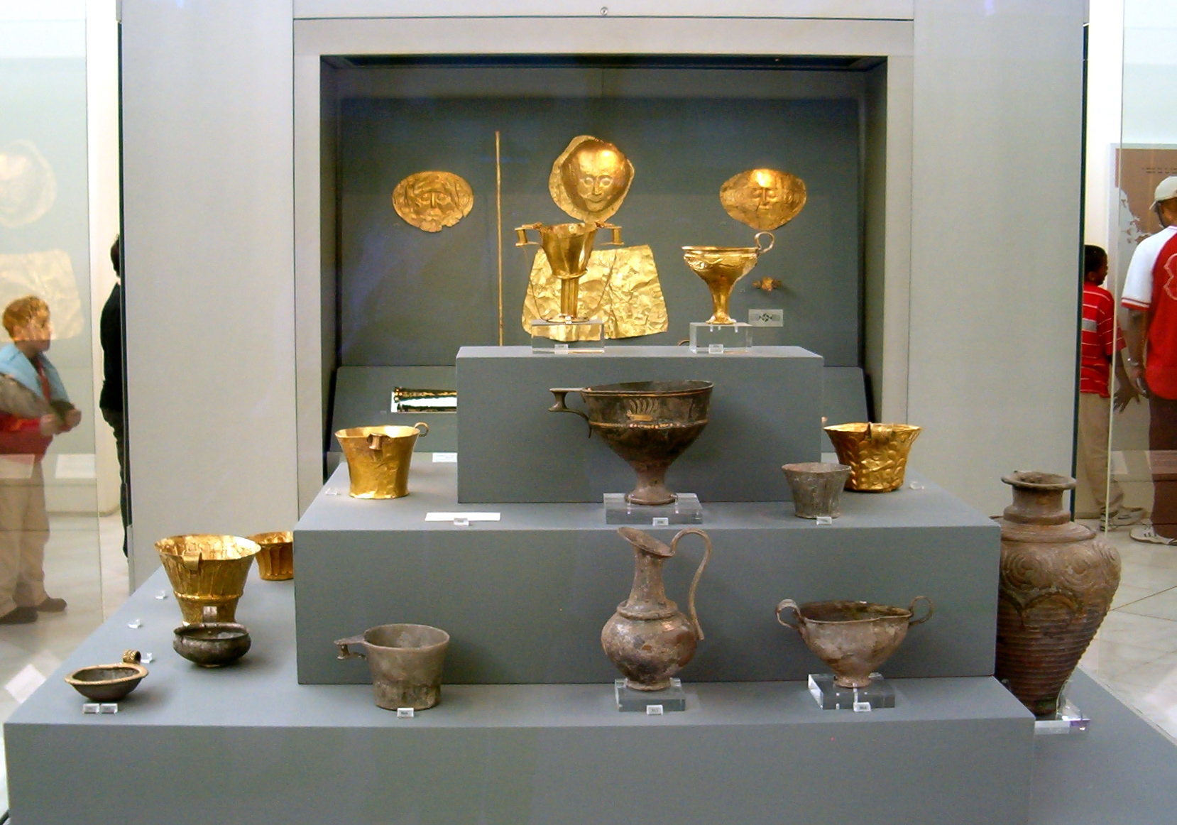 Treasure from royal tombs, Mycenae, Greece - National Archeological Museum, Athens - photo taken by Marcok of wikipedia on March 21, 2005